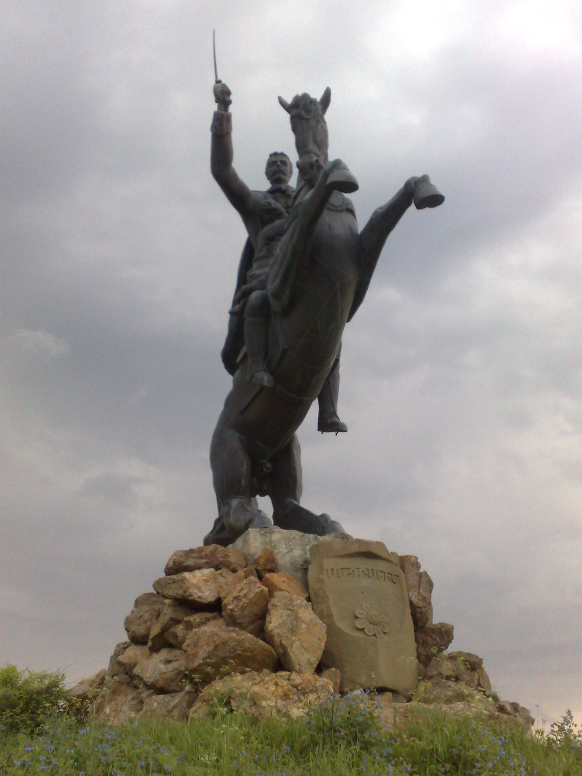 Monument of armenian hero, comander, fedayi Andranik Ozanyan near village Navur in Tavush province of Armneia. 8-10 meters in height